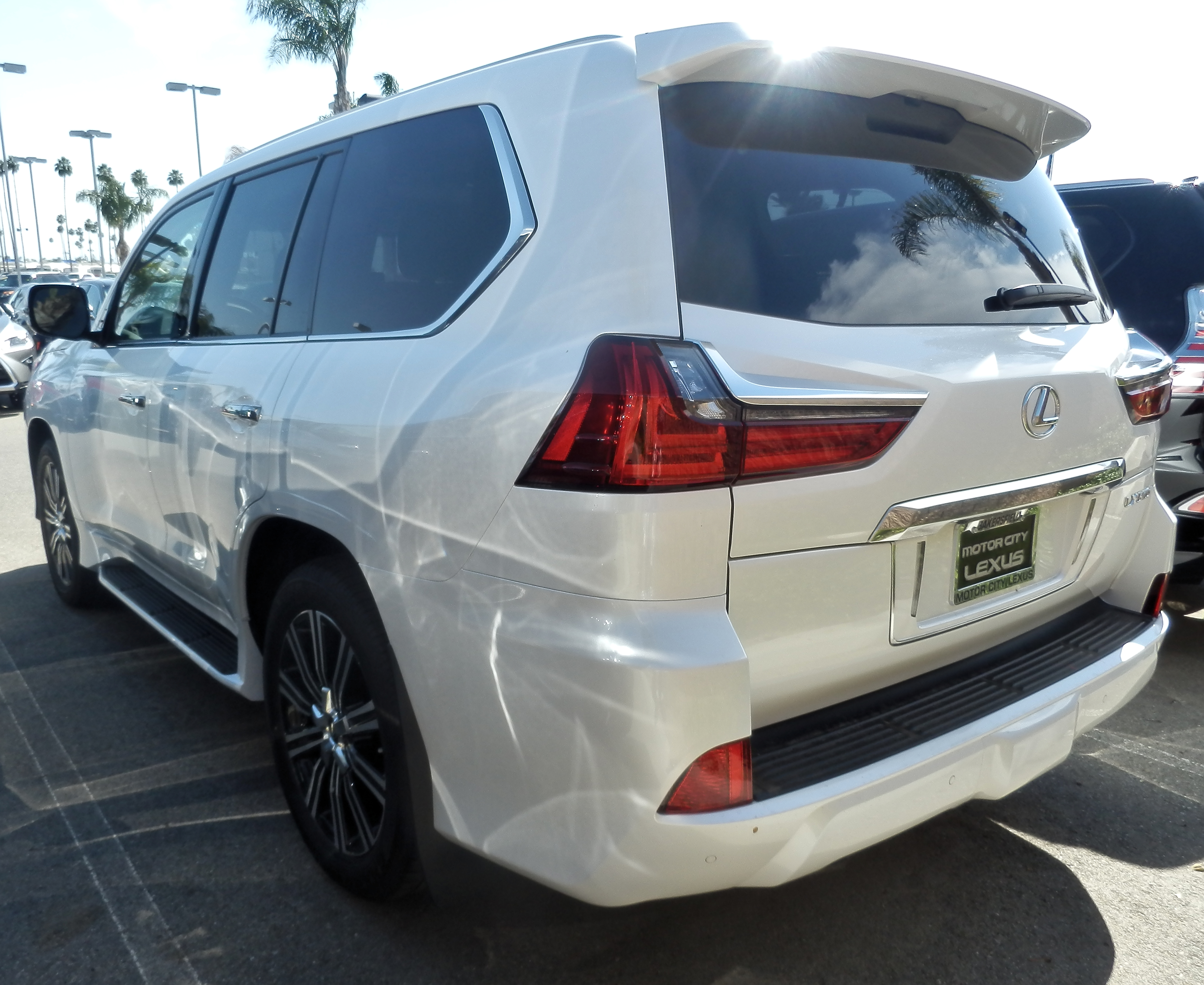 Lexus LX in Bakersfield